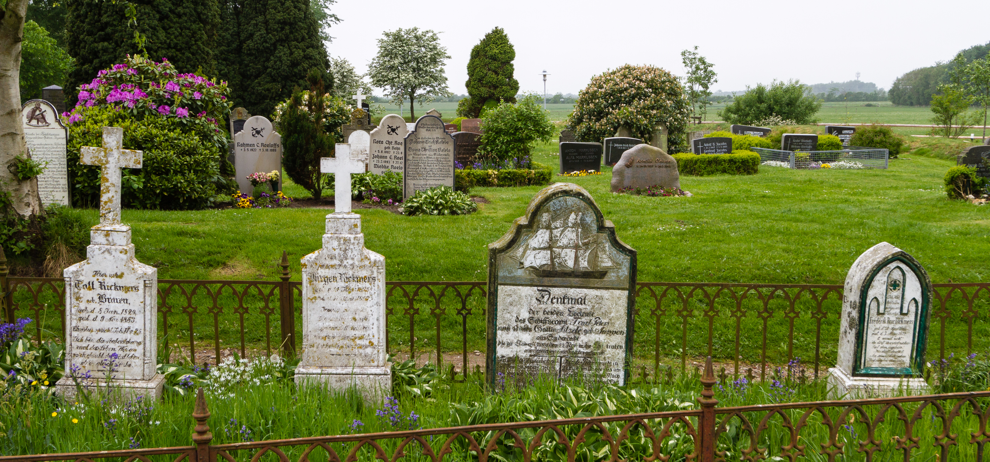 Designation: Tombs Location: Sarkstig House number: 1 Place: Süderende, Collective municipality Föhr-Amrum, District Nordfriesland, Schleswig-Holstein, Federal Republic of Germany Construction time: until 1870 Description: St. Laurentii was first mentioned in a Church Directory from the year 1240. The building has been extended several times in the centuries of the existence. Object identification: 19365